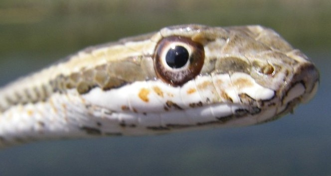 Psammophis lineolatus; Qyzylorda province